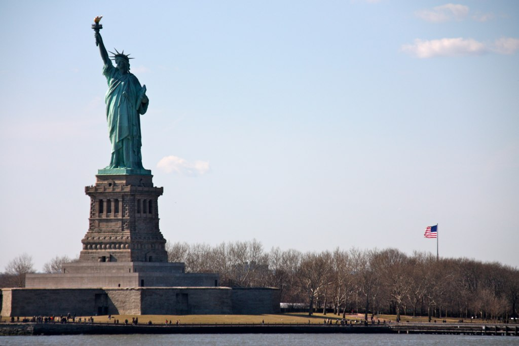 Liberty Island + bandera